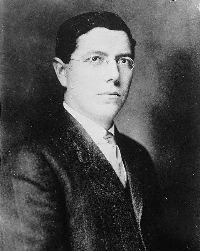 Bain News Service, publisher. Dr. Raymond Pearl circa 1913 [no date recorded on caption card] 1 negative : glass ; 5 x 7 in. or smaller. Notes: Title from unverified data provided by the Bain News Service on the negatives or caption cards. Forms part of: George Grantham Bain Collection (Library of Congress). Format: Glass negatives. Repository: Library of Congress, Prints and Photographs Division, Washington, D.C. 20540 USA, General information about the Bain Collection is available at Persistent URL: Call Number: LC-B2- 2625-2